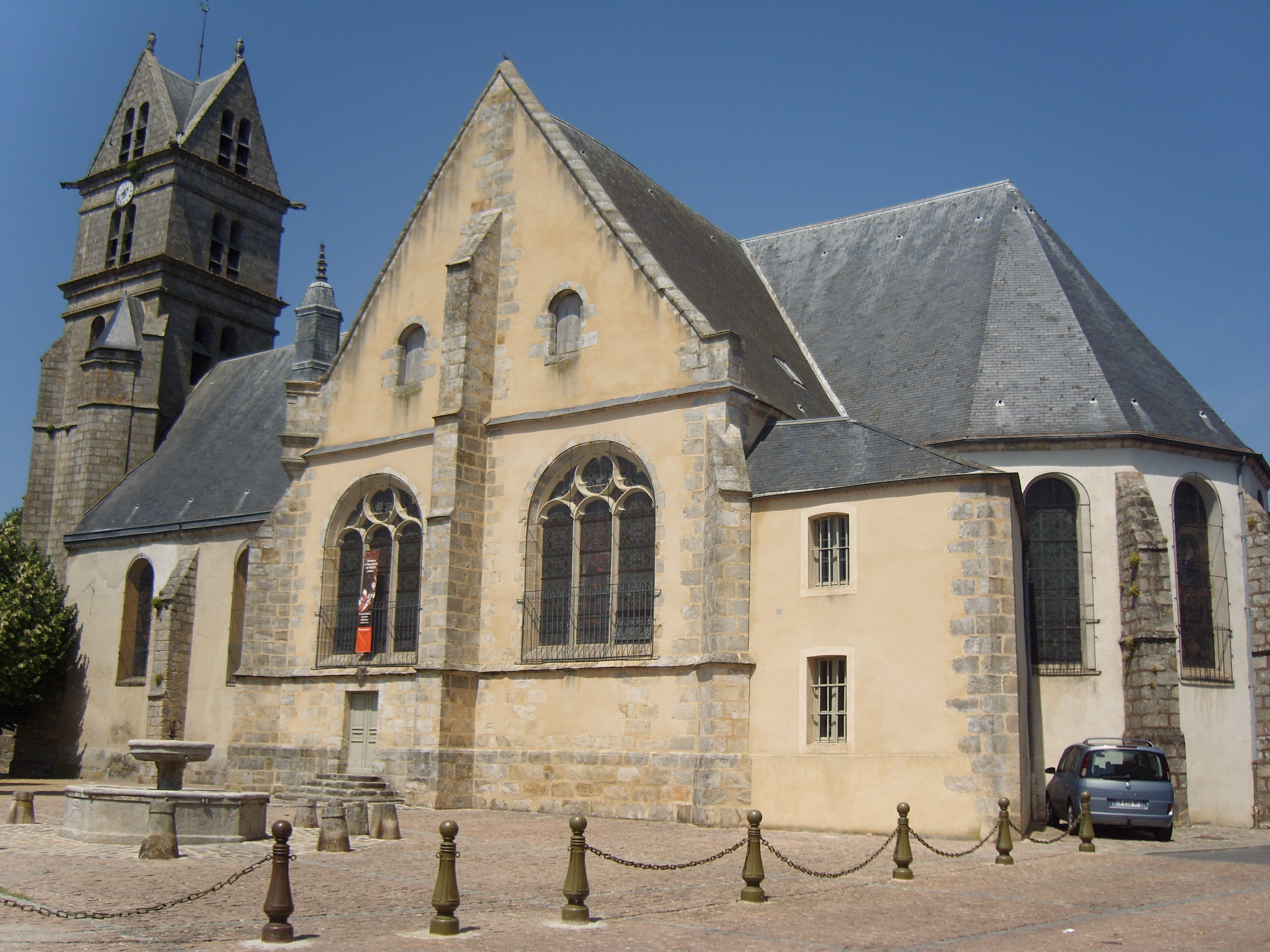 Church Saint-Martin of Fontenay-Trésigny